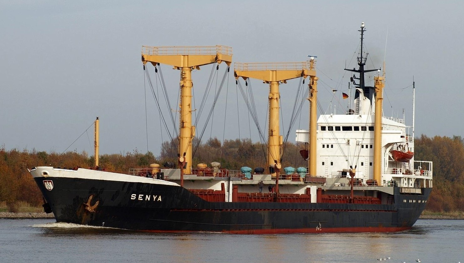 General cargo ship SENYA (IMO 7036591) built at Lindenau Werft, Kiel, as LUTZ SCHRÖDER (yard № 154, launched: 10-03-1973, delivered: 15-05-1973), 1986 SENYA, 2011 JOY K, BU Aliaga 10-2017; photo by Jens Dohrn.